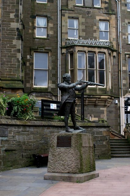 Statue of Adam Duncan, Dundee. Lord Viscount Admiral Duncan of Camperdown (1731-1804) was a British admiral who defeated the Dutch fleet in a highly significant battle off Camperdown, north of Haarlem, on 11th October 1797. His estate, Camperdown Park on the edge of Dundee, is now a country park. See 902113.